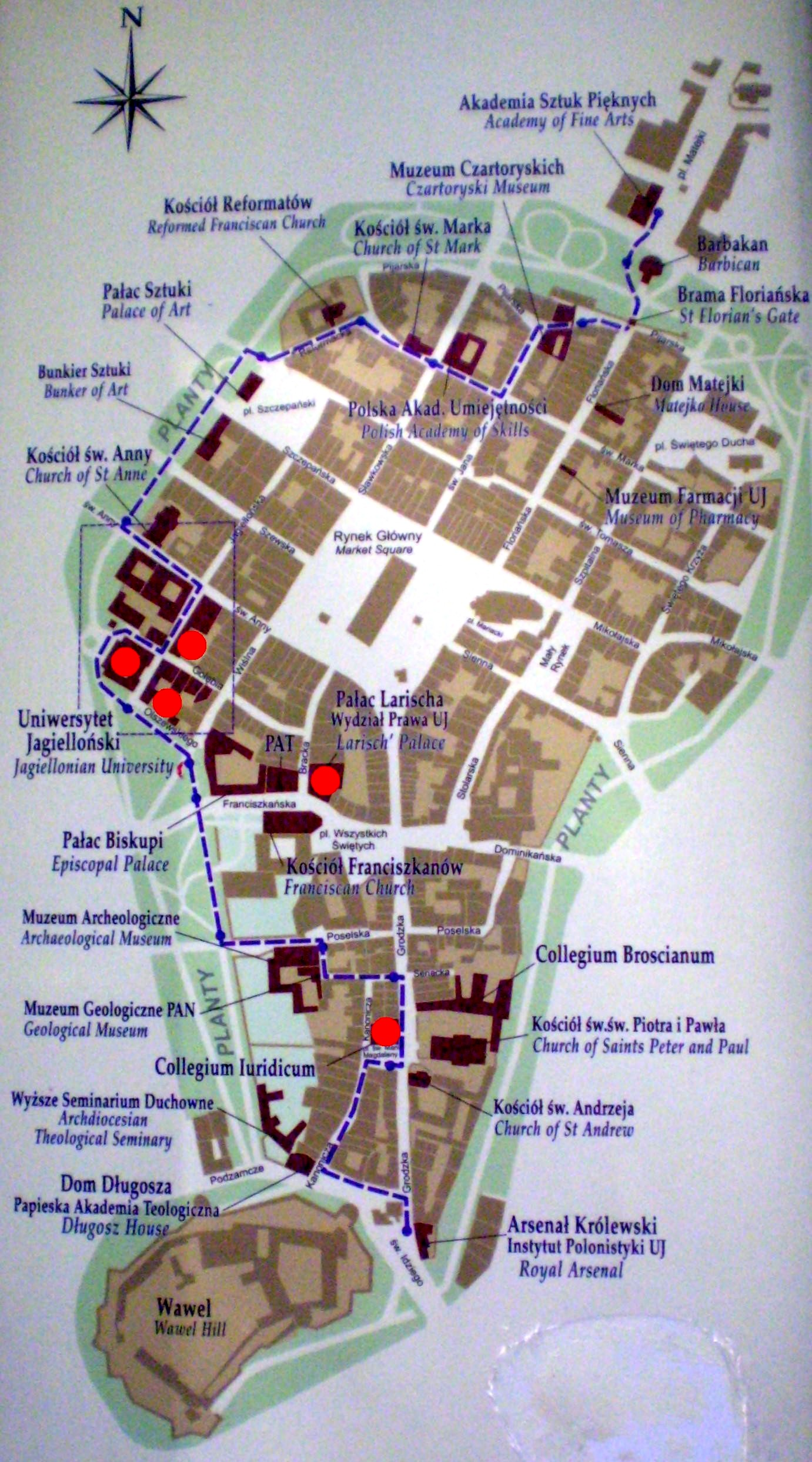 Faculty of Law and Administration of the Jagiellonian University - location